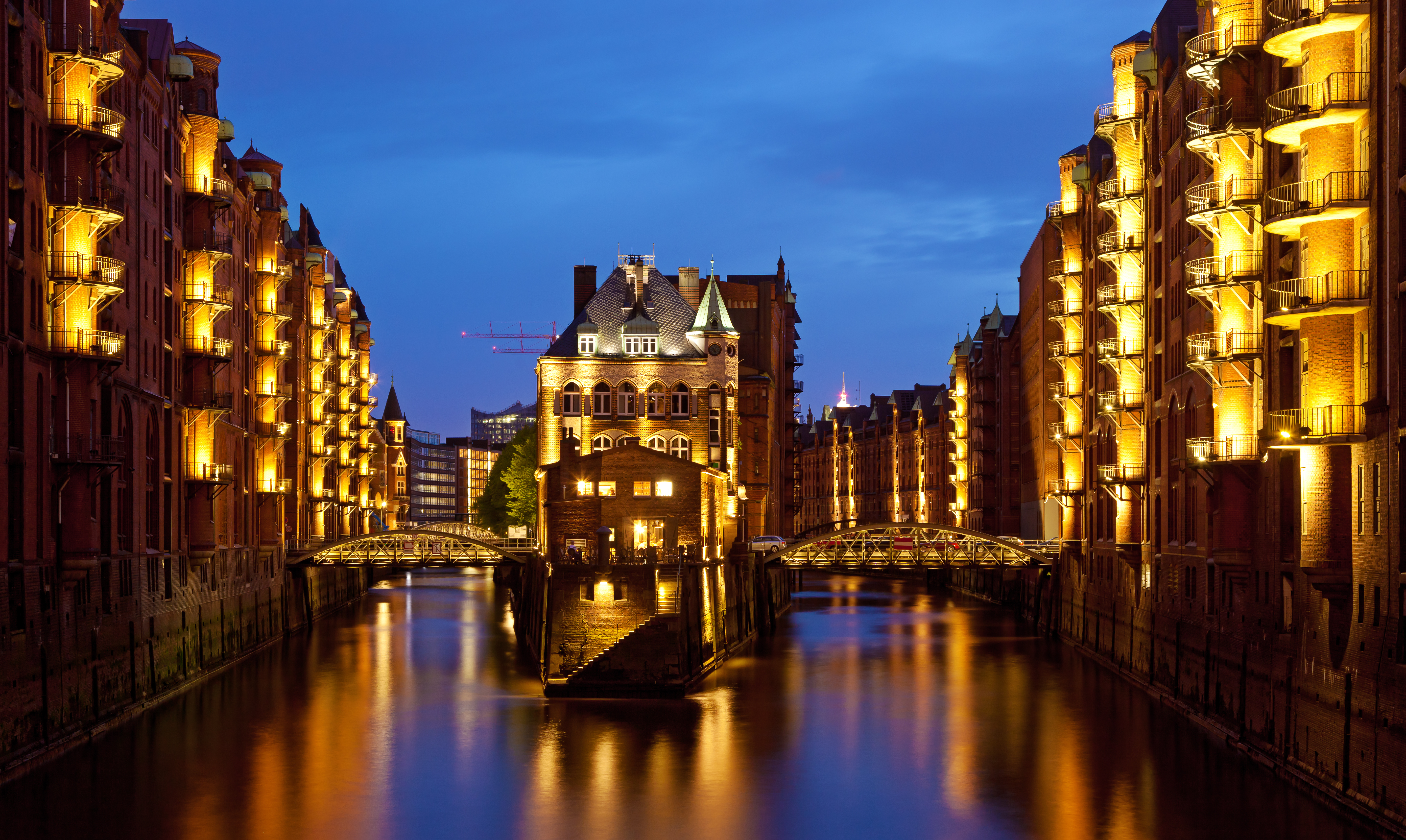 view from Poggenmühlenbrücke at Speicherstadt in Hamburg, Germany